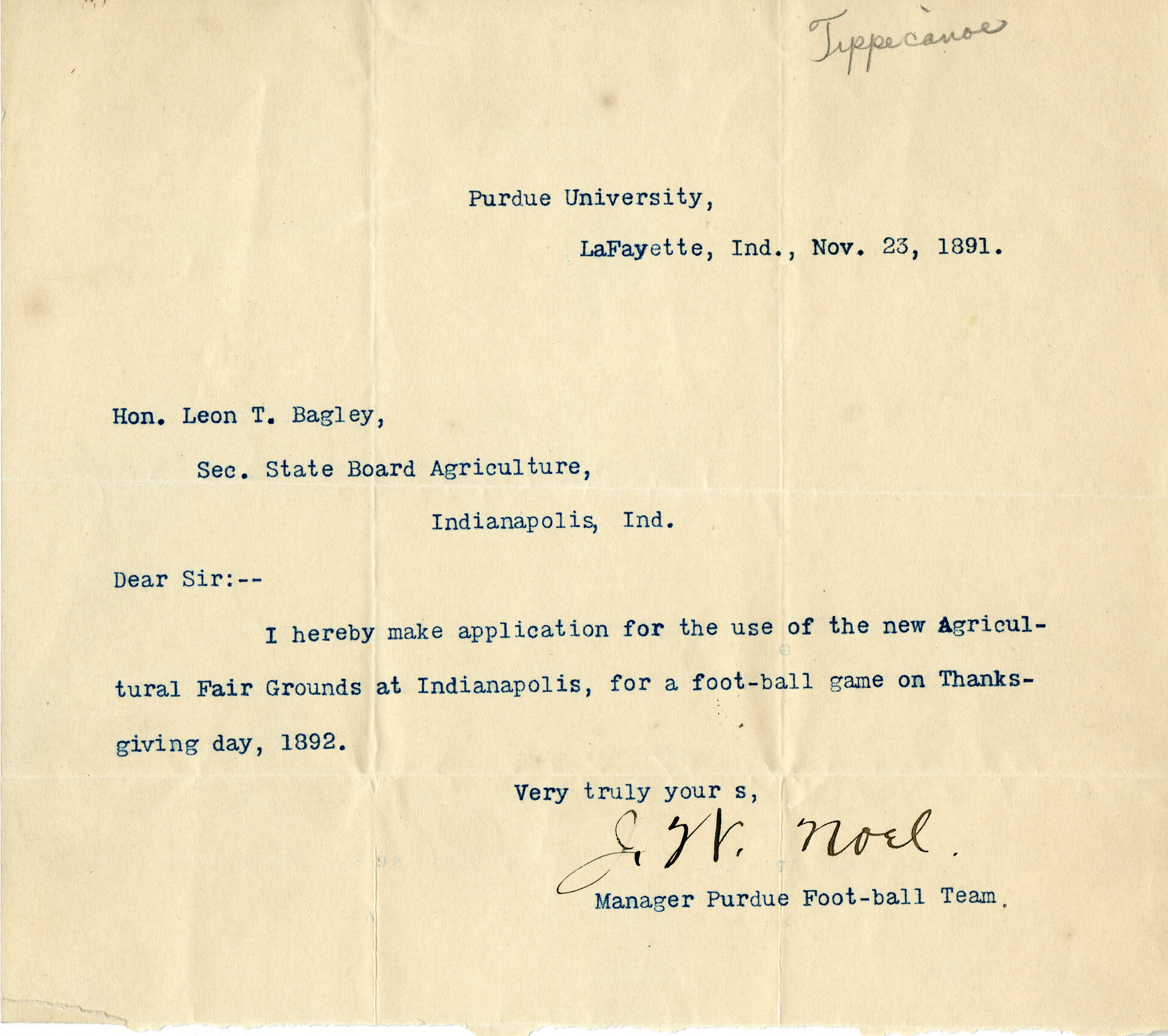 Purdue Foot-ball Team letter, 1891